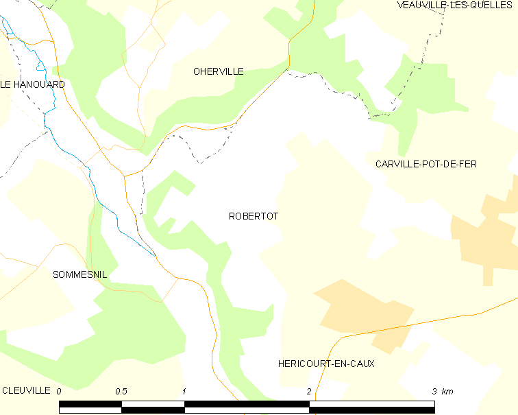 Map of French municipality Robertot